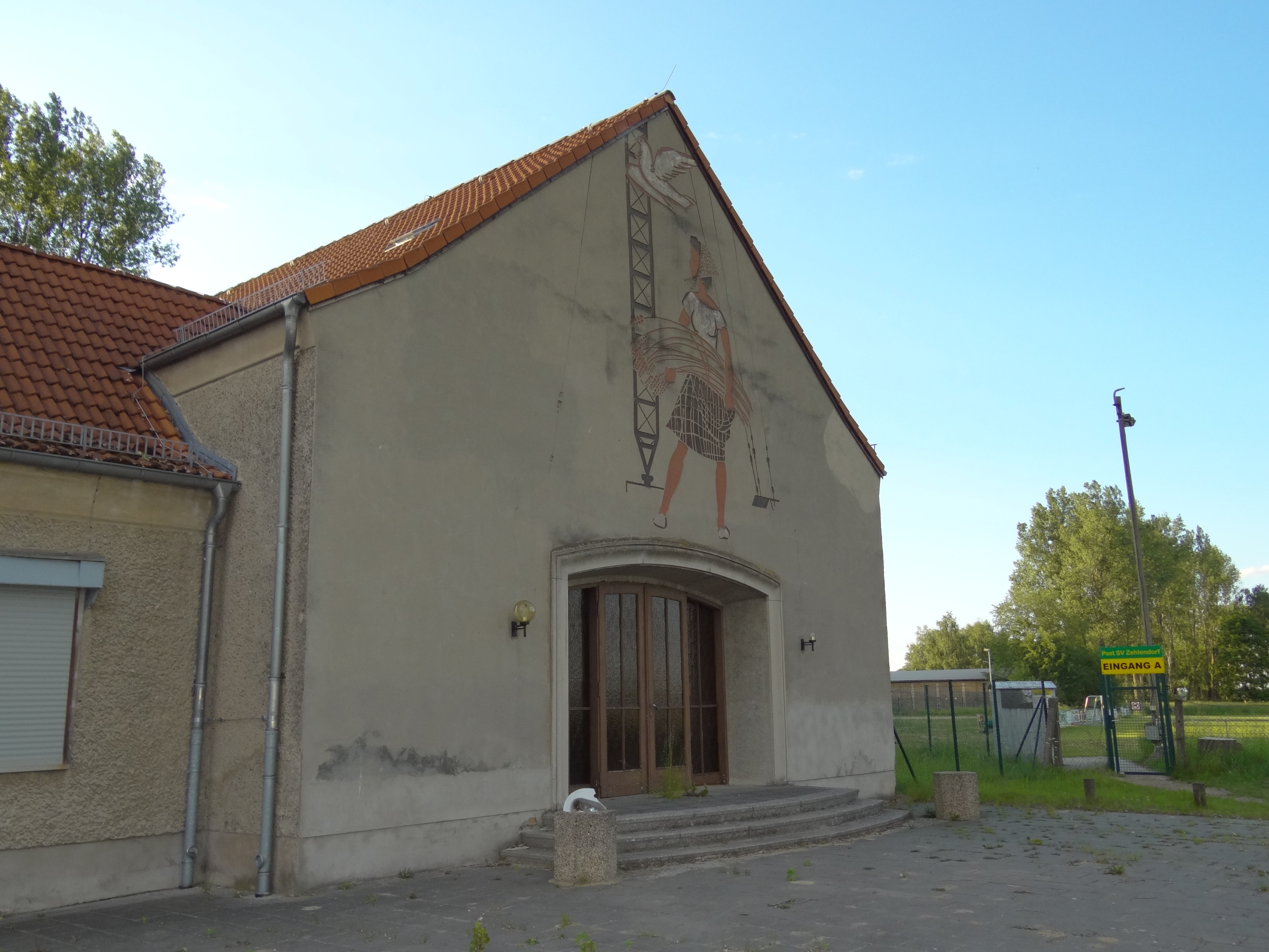 The entrance of, and a social realism mural on, the administration building of Sender Zehlendorf, a transmission site for long wave and medium wave radio, in the village of Zehlendorf bei Oranienburg which is under the administration of the city of Oranienburg in Brandenburg, Germany.